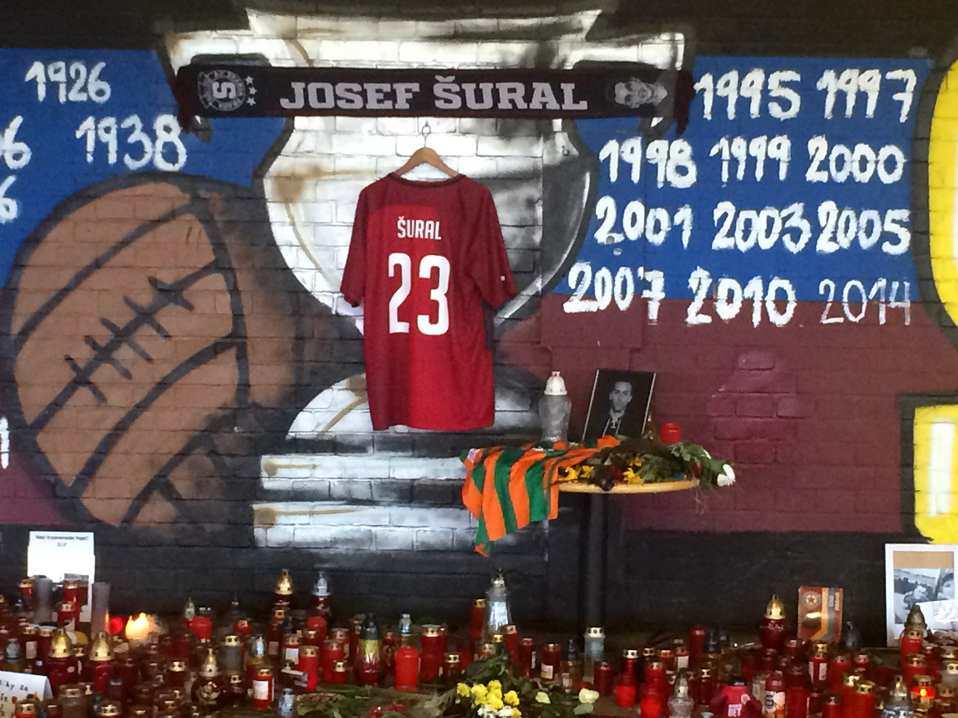 Candle memorial to deceased Czech footballer Josef Šural at Sparta stadium, Prague.